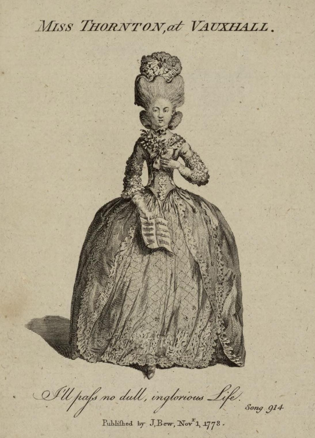 A portrait from the Welsh Portrait Collection at the National Library of Wales. Depicted person: Margaret Martyr – singer and actress